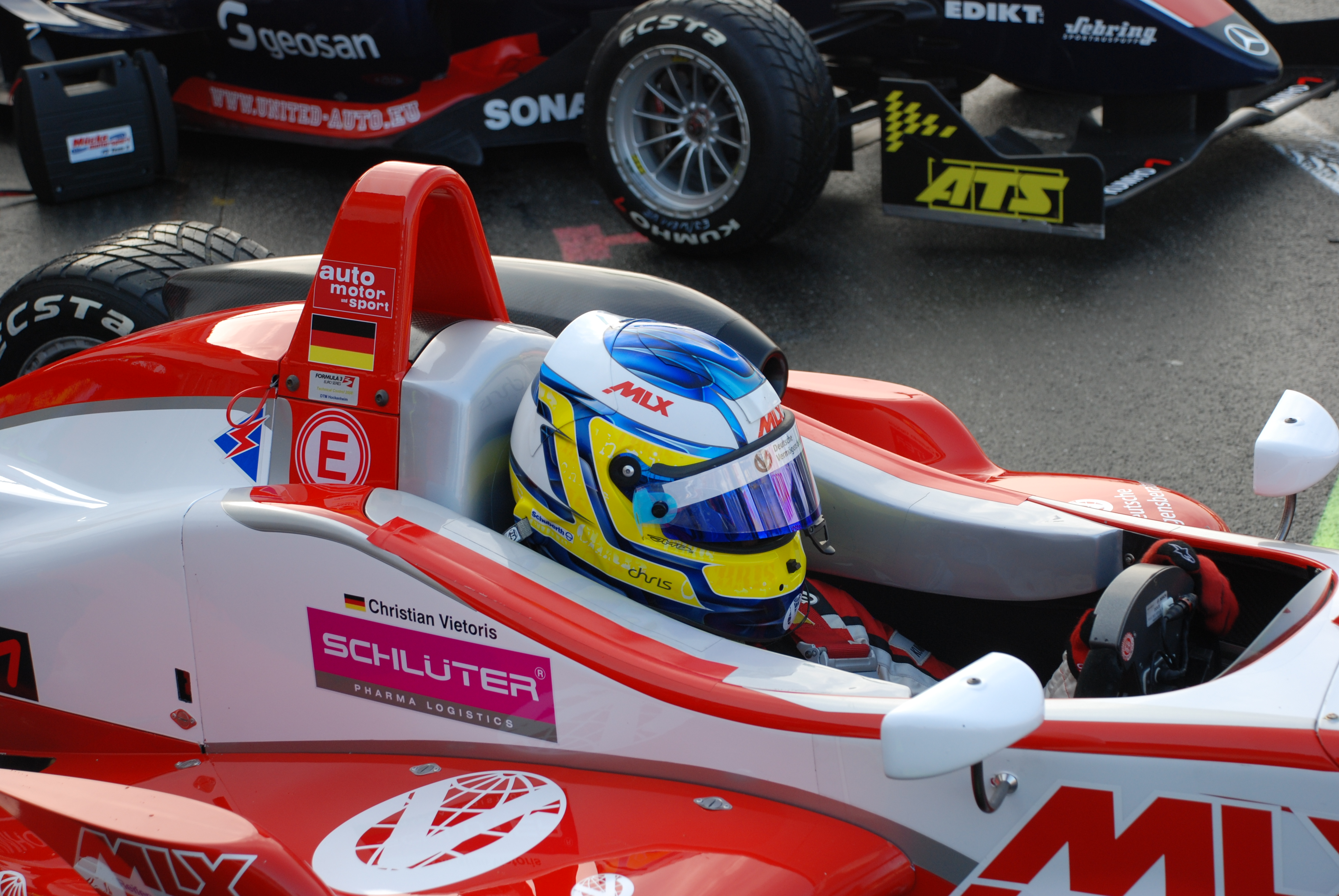 Christian Vietoris (ASL Mücke Motorsport), Formula 3 Euroseries driver, Hockenheim 2008